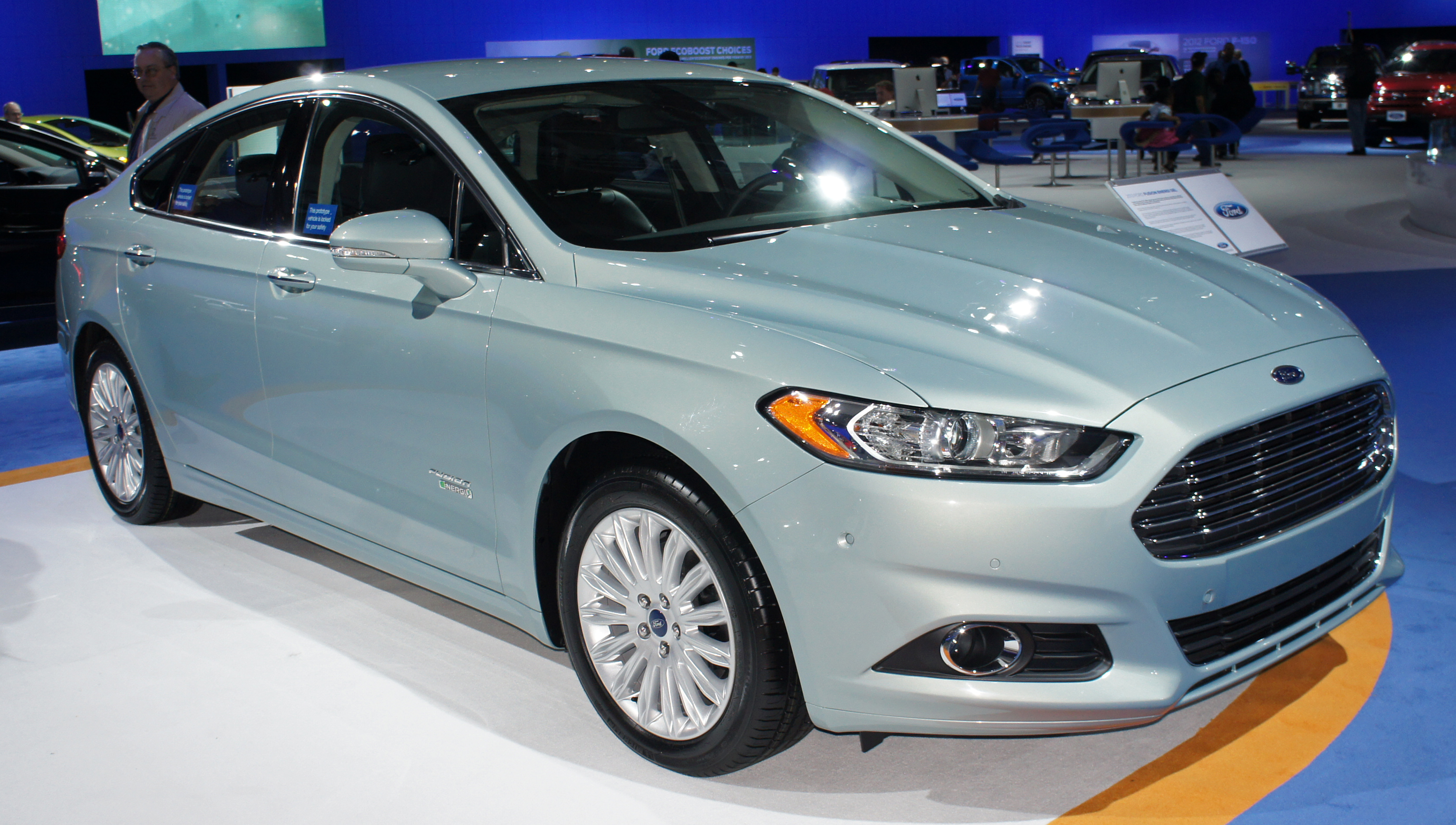 2013 Ford Fusion Energi SEL plug-in hybrid exhibited at the 2012 Washington Auto Show, District of Columbia.